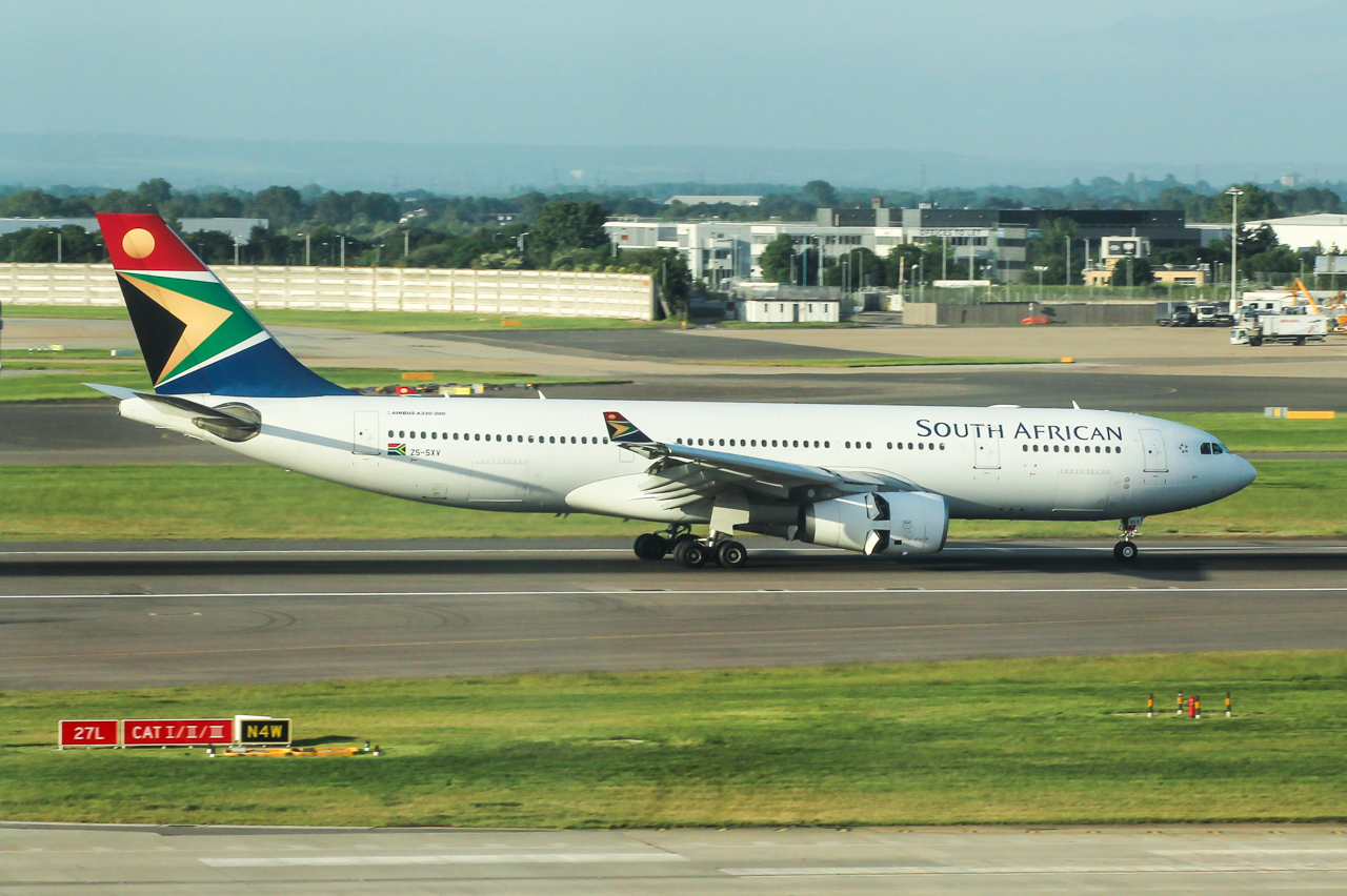 ZS-SXV A330 South African